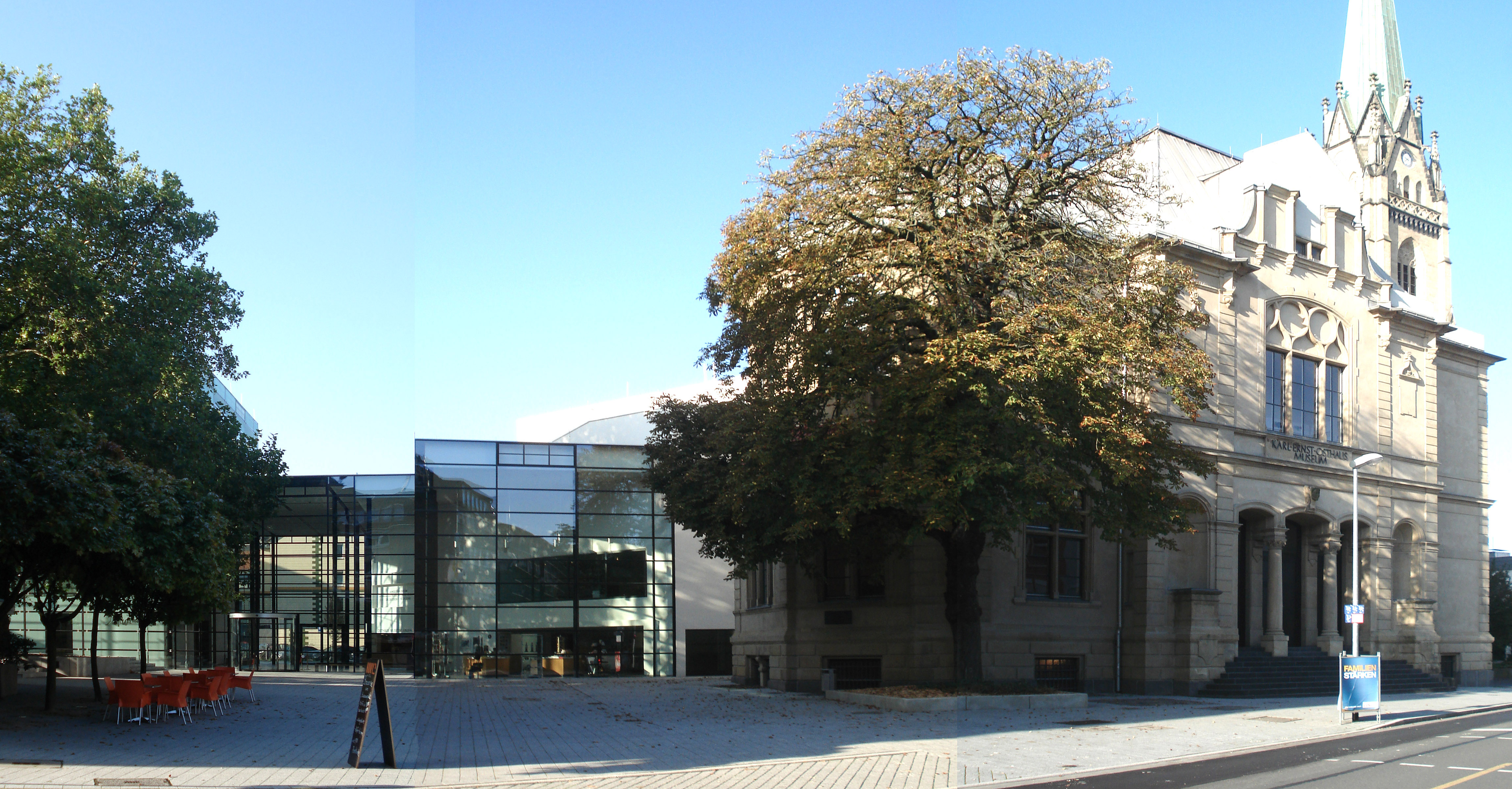 Emil-Schumacher-Museum and Karl-Ernst-Osthaus-Museum, Hagen (Germany)